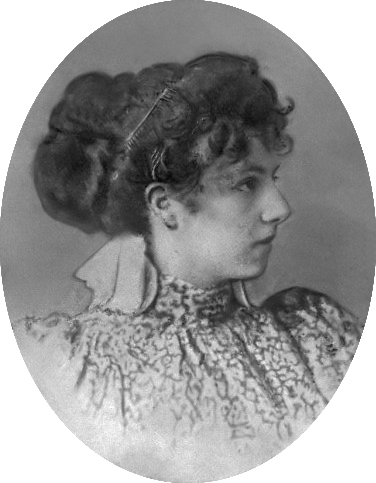 Portrait of Margaretha Geertruida Zelle, 1876-1917, at a youthful age. No place or date